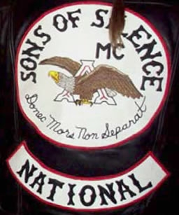 A Sons of Silence jacket